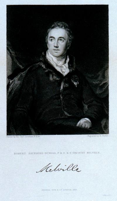 Portrait of Robert Dundas, 2nd Viscount Melville